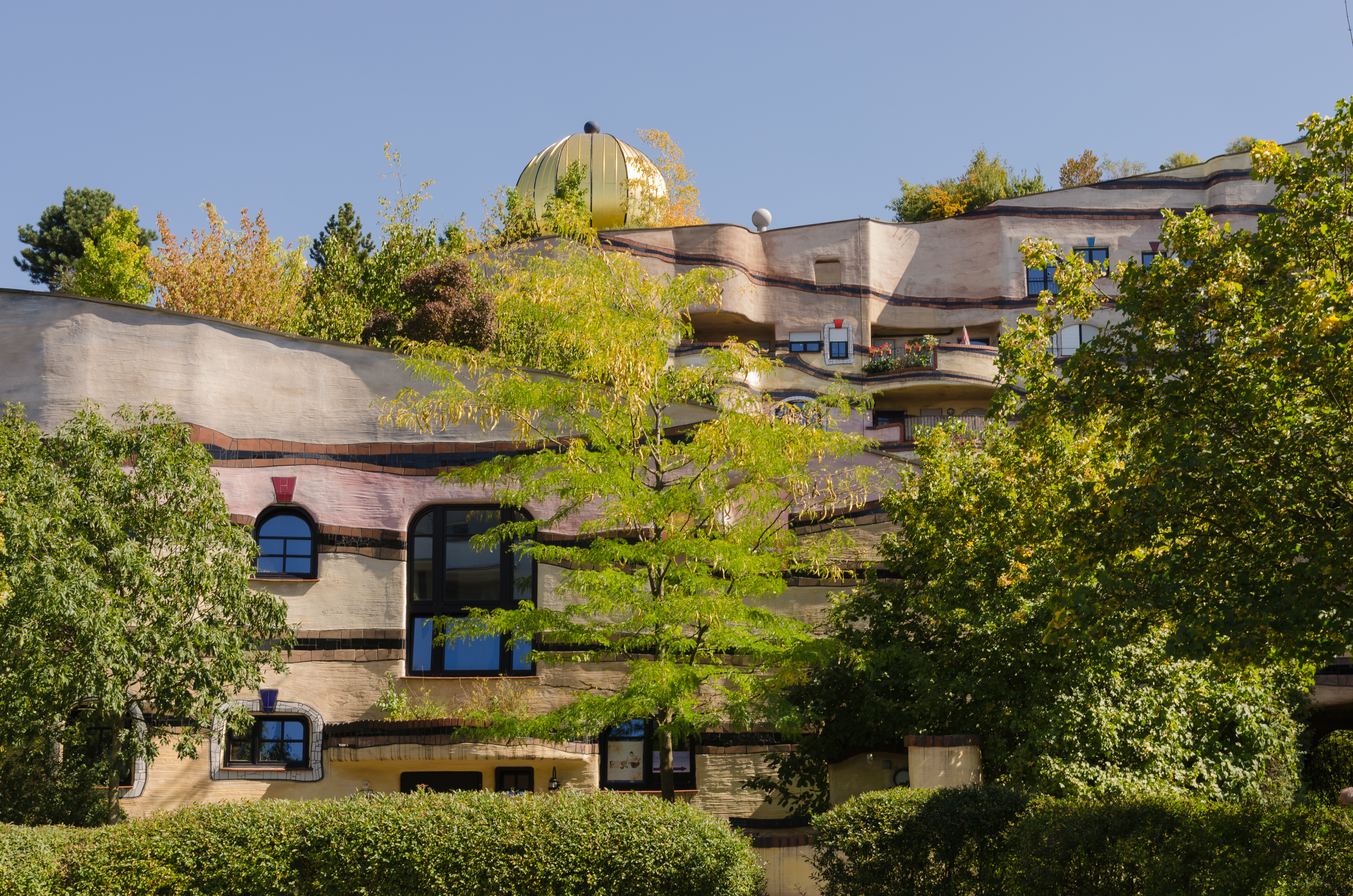 The Waldspirale (Forest Spiral) is the name of a residential complex (105 apartments) in Darmstadt (Germany), designed by Viennese artist Friedensreich Hundertwasser and built by architect Heinz M. Springmann and bauverein AG Darmstadt.